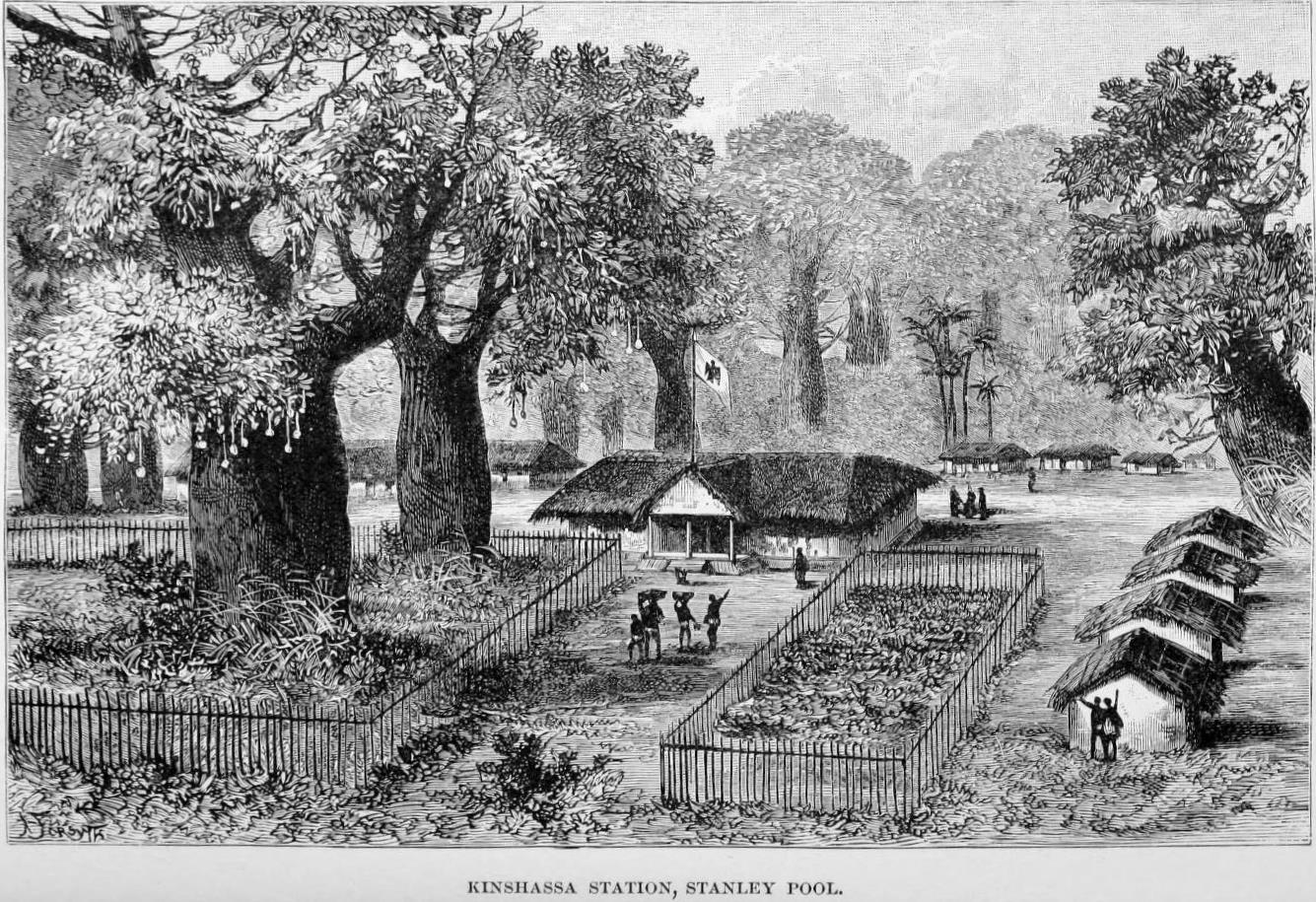 Pictures excerpted from HM Stanley's book "The Congo and the founding of its free state; a story of work and exploration (1885)"